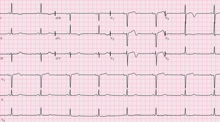 Acute coronary syndrome (ACS). Urgent revascularization of 69-year-old black male with no known history of CAD. Wellens' Warning in cardiac cath lab. Tight, critical stenosis (i.e., lesion) in the proximal LAD (95%). Before and after images of PCI. Placement of bare-metal stent (BMS) instead of drug-eluting stent (DES) in a patient with carcinoma.